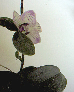 Regular keiki in blossom on Phalaenopsis. Photograph taken by Elisabeth Wetsch March 2004 and released under the GNU Free Documentation License. All remaining rights reserved.